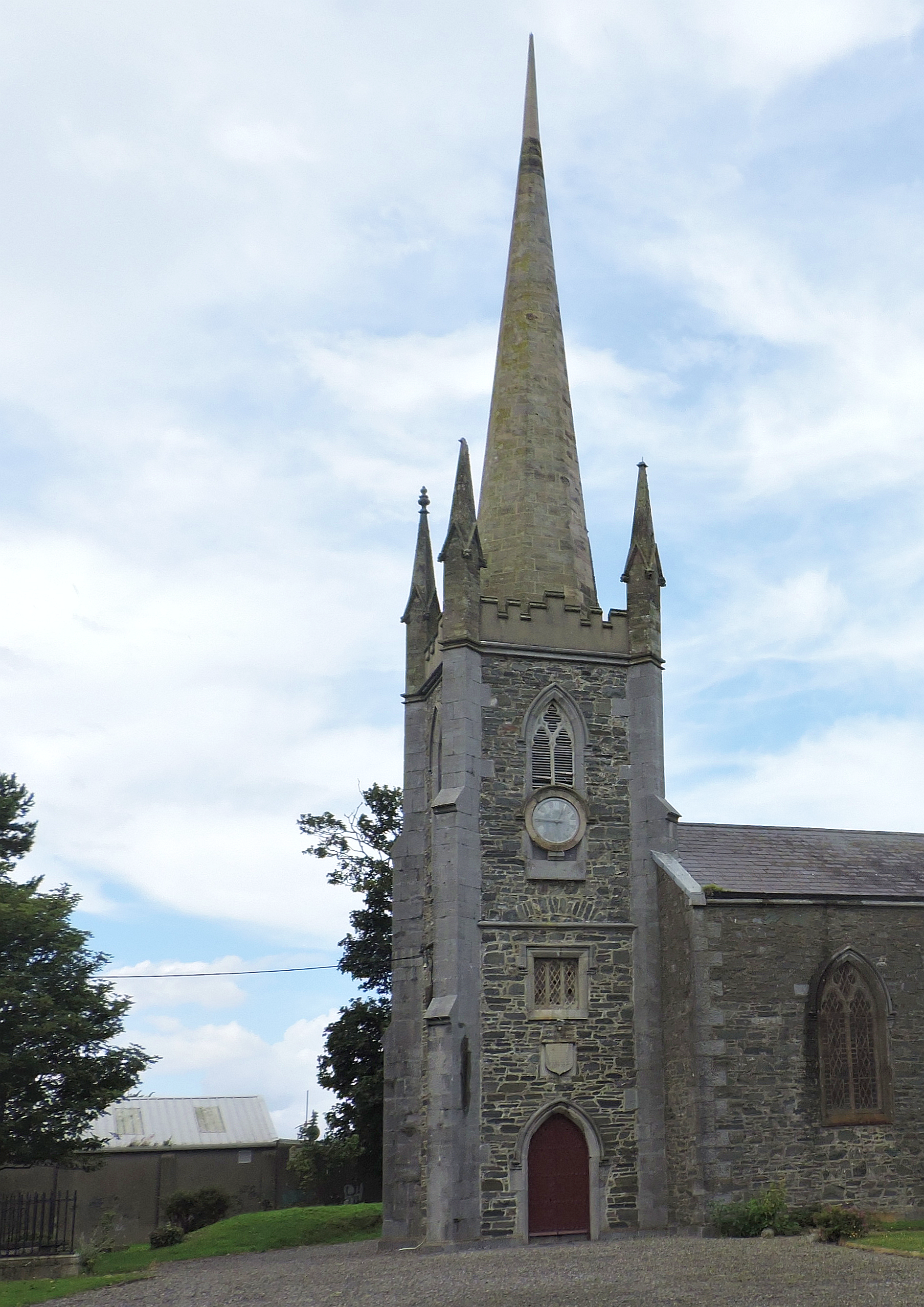 Balbriggan (County Fingal): St. Georges Church church tower (1813)